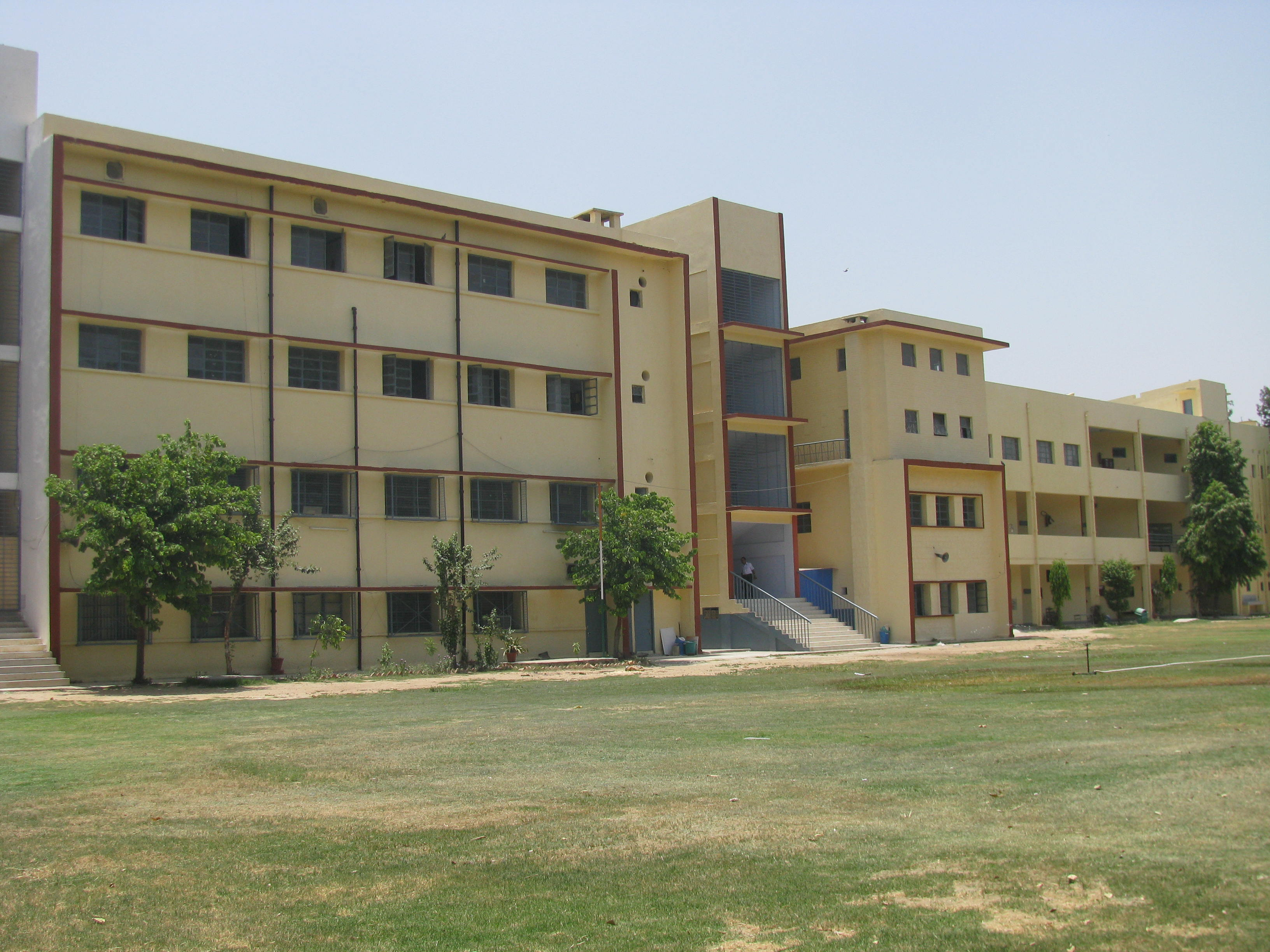 Delhi Kannada school